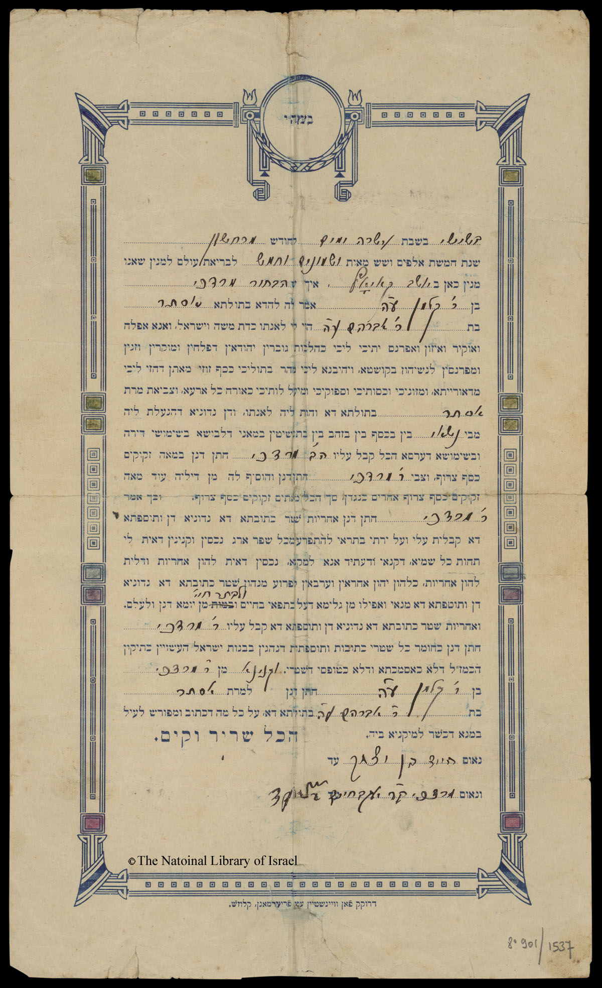 Ketubah from The Ketubot Collection of the National Library of Israel